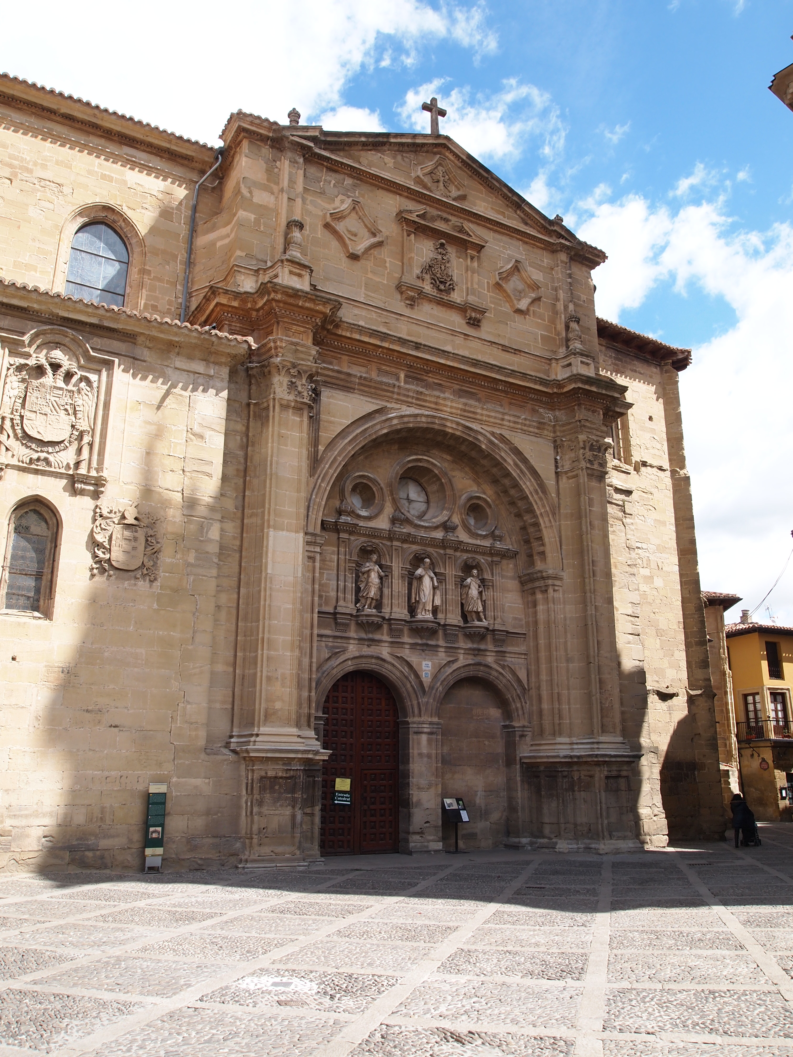 Cathedral of Santo Domingo de la Calzada